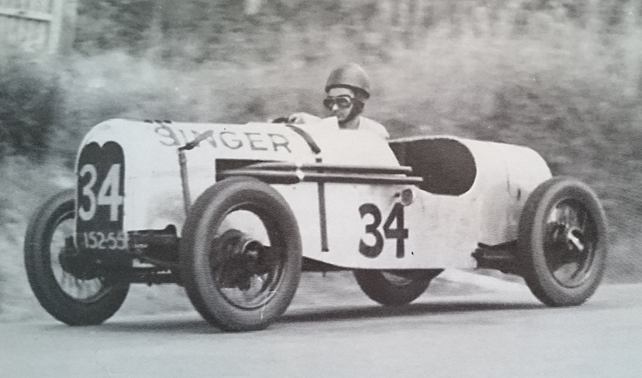 The race winning Singer Bantam of Noel Campbell contesting the 1938 South Australian Grand Prix at the Lobethal Circuit.